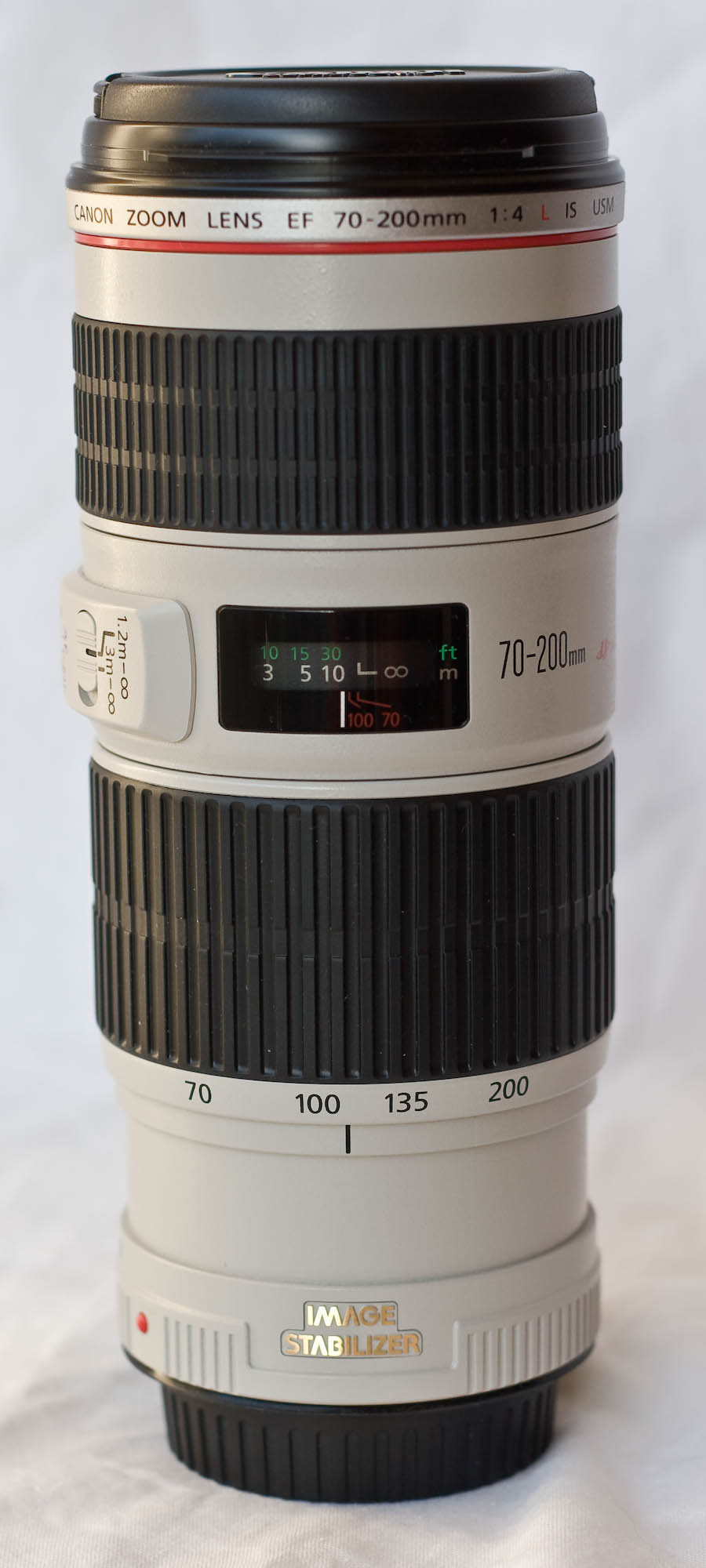 Canon EF 70-200mm f/4.0 L IS USM lens